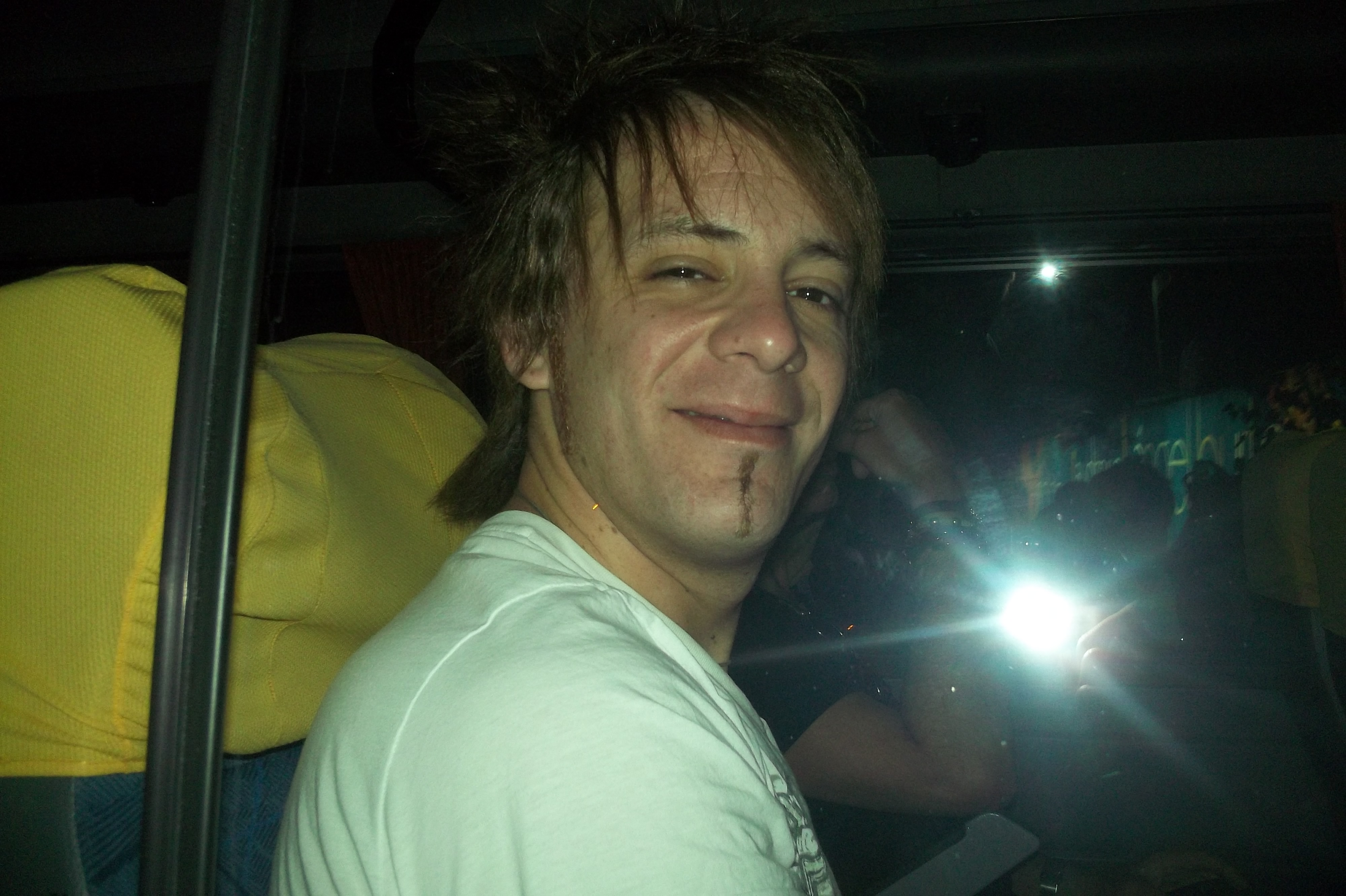 Photo taken before the concert of Rata Blanca in Mendoza city in october 13st year 2012.